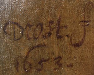 Portrait of a lady, detail (signature).